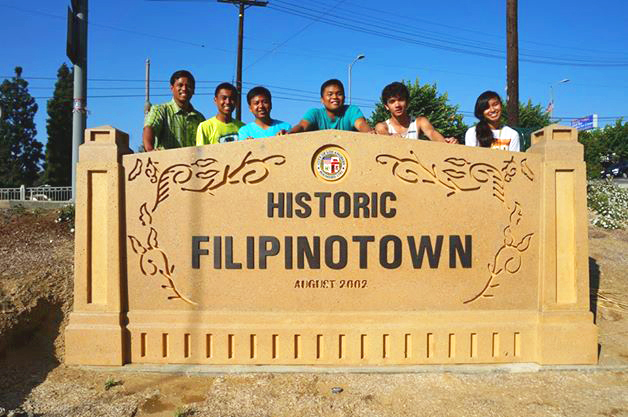 Western Gateway of Historic Filipinotown unveiled February 2014 at the corner of Temple St. and Silverlake Blvd.